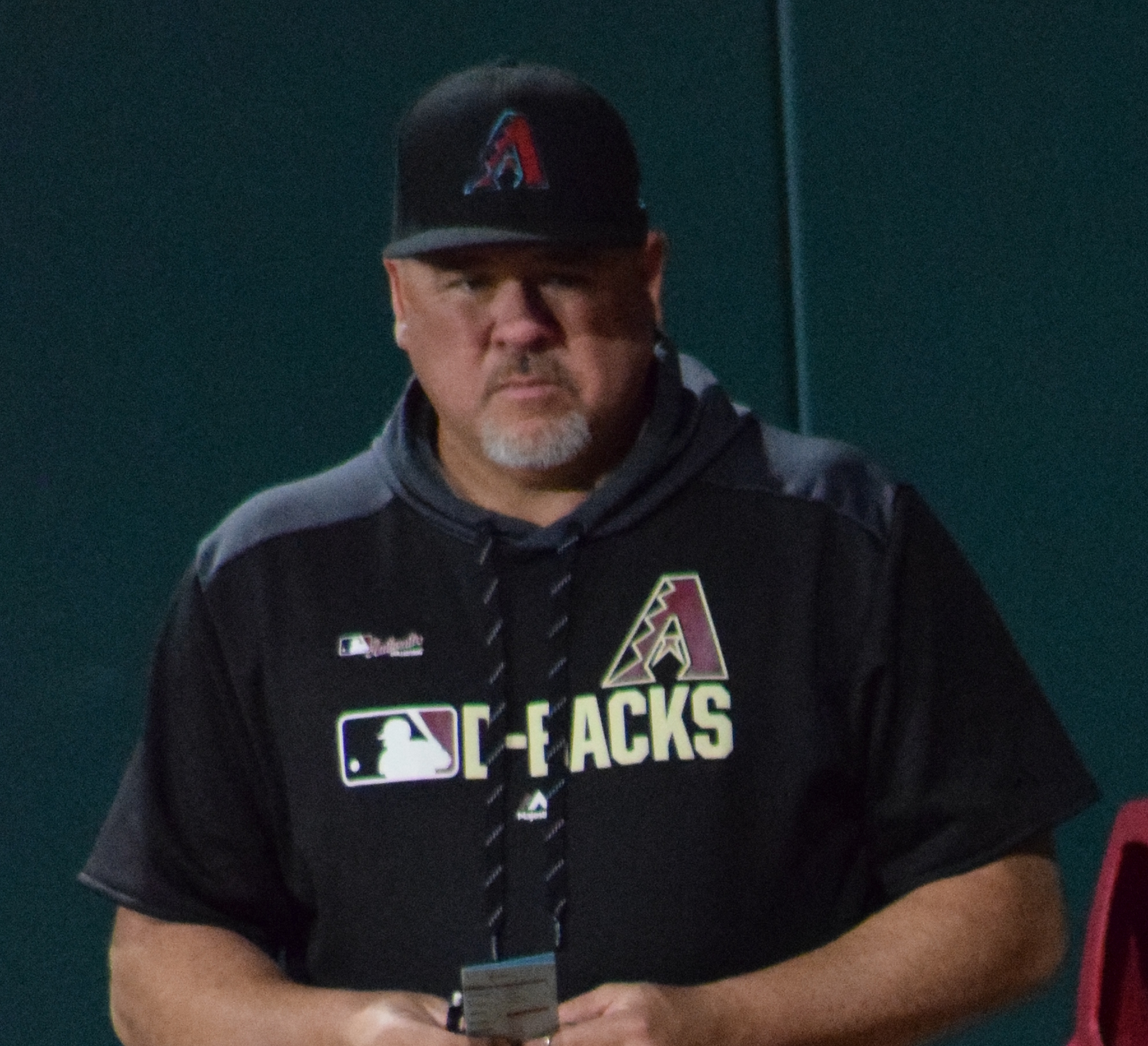 Andrew Chafin warms up in the bullpen for the Arizona Diamondbacks during a 2019 game at Citizens Bank Park